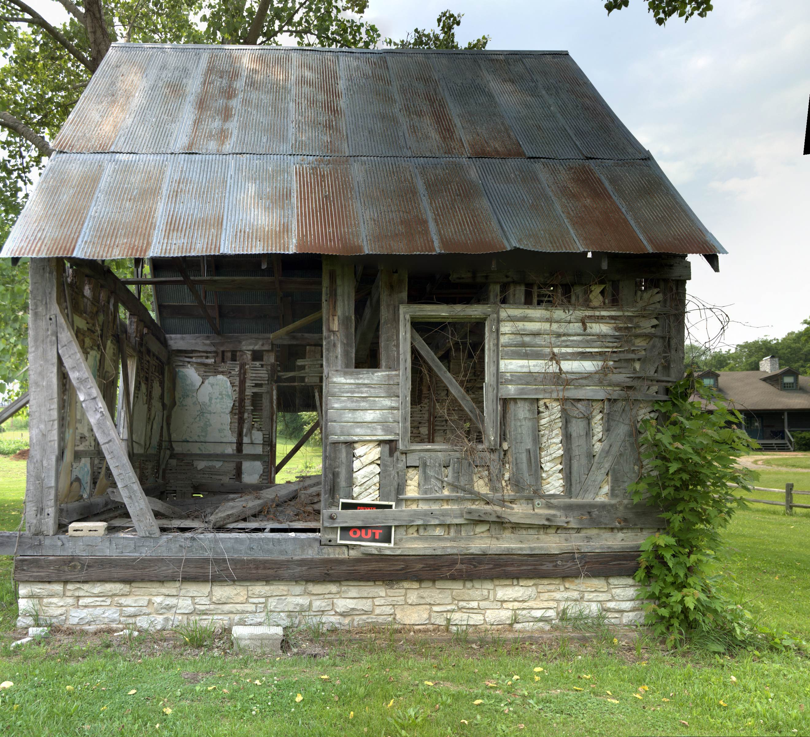 The Durand Cabin is an example of poteaux-sur-solle and pierrotage construction. It is located in Ste. Geneviève, Missouri.